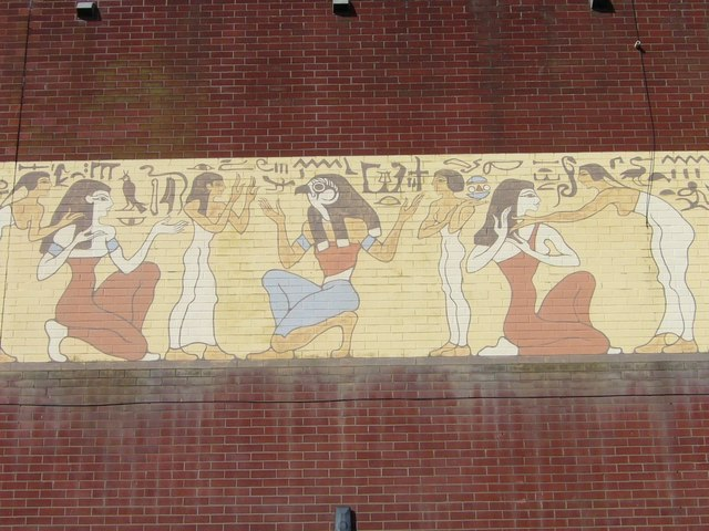 Factory frieze, Powderhall Mock-Egyptian art motifs on a wall of the former Duncan's chocolate factory.